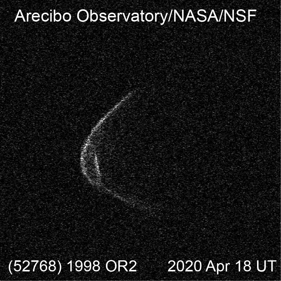 Asteroid 1998 OR2 as imaged by the Arecibo Radar on 18 April 2020